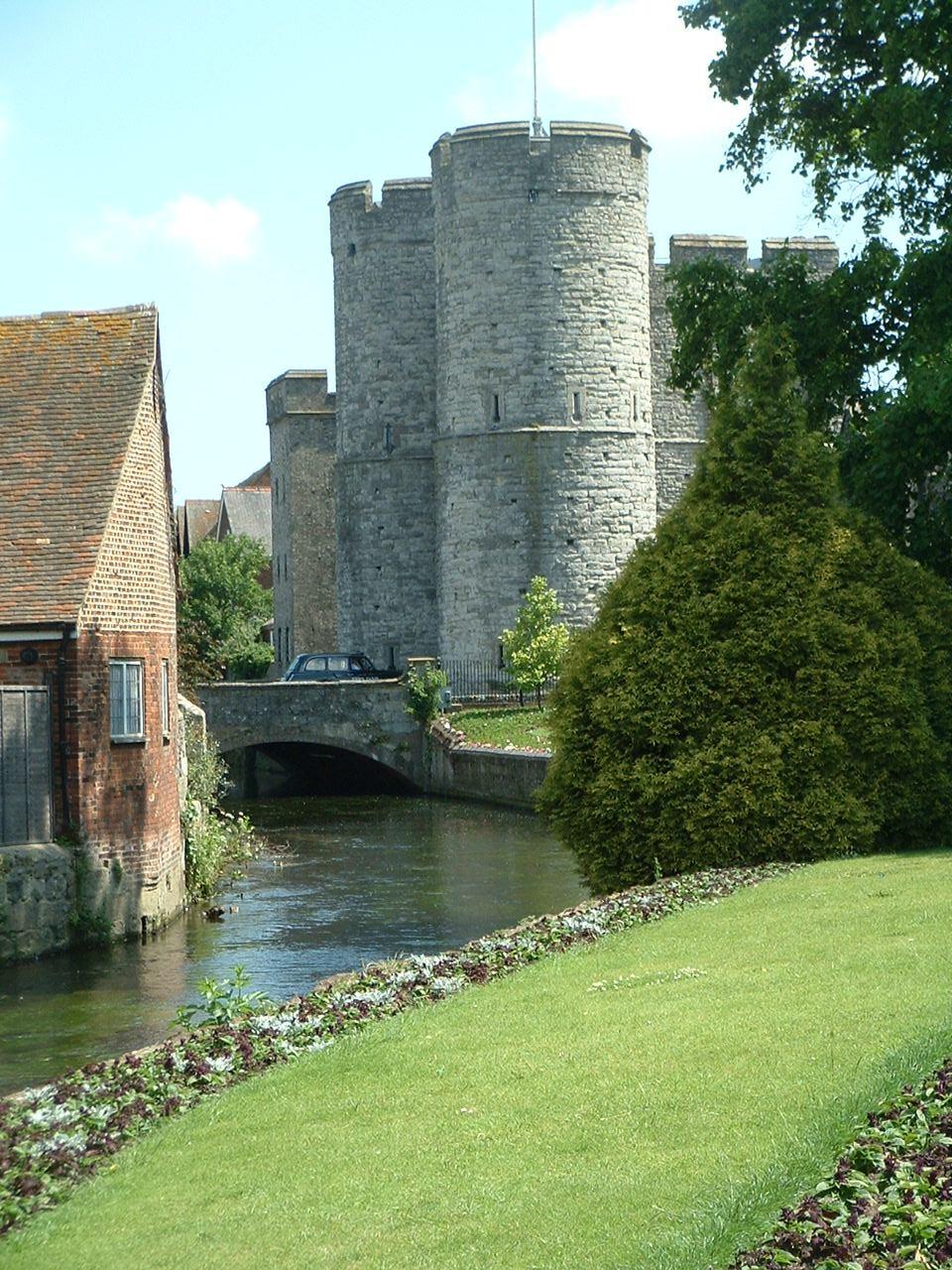 The Westgate from Westgate Gardens. Taken by Necrothesp, 18 June 2005.